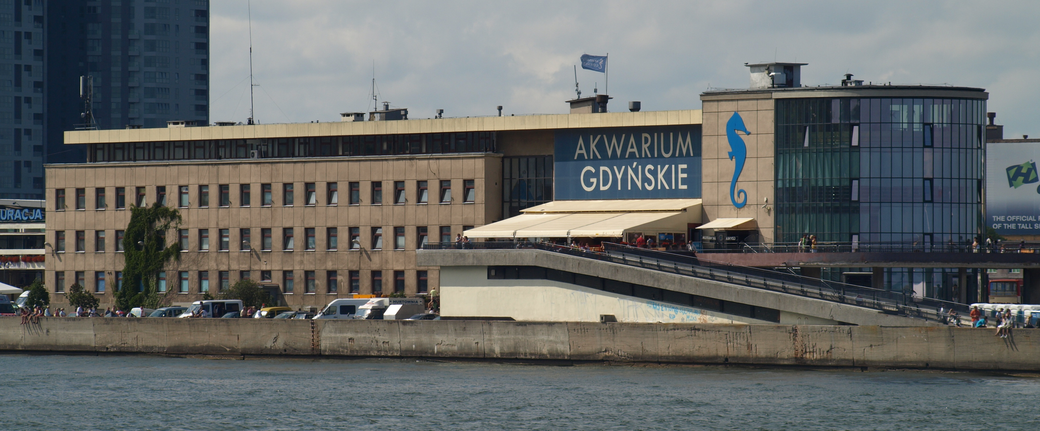 Gdynia Aquarium, southern side picture taken from a boat